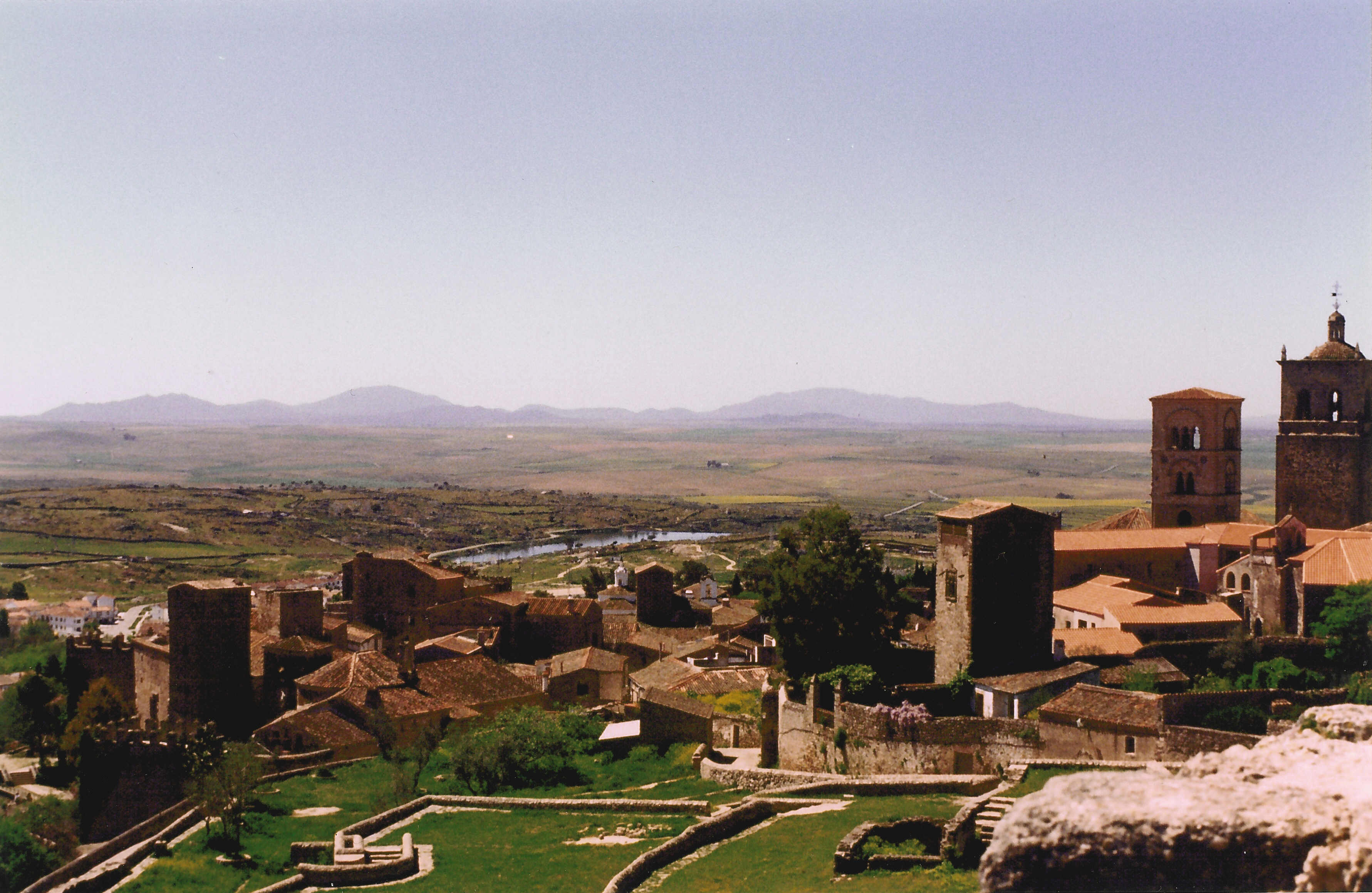 Trujillo, Extremadura, Spain. The Church of St. Maria la Mayor is at right. Although taken several years earlier and in different weather, the field of view of this photo overlaps that of Image:Trujillo.jpg